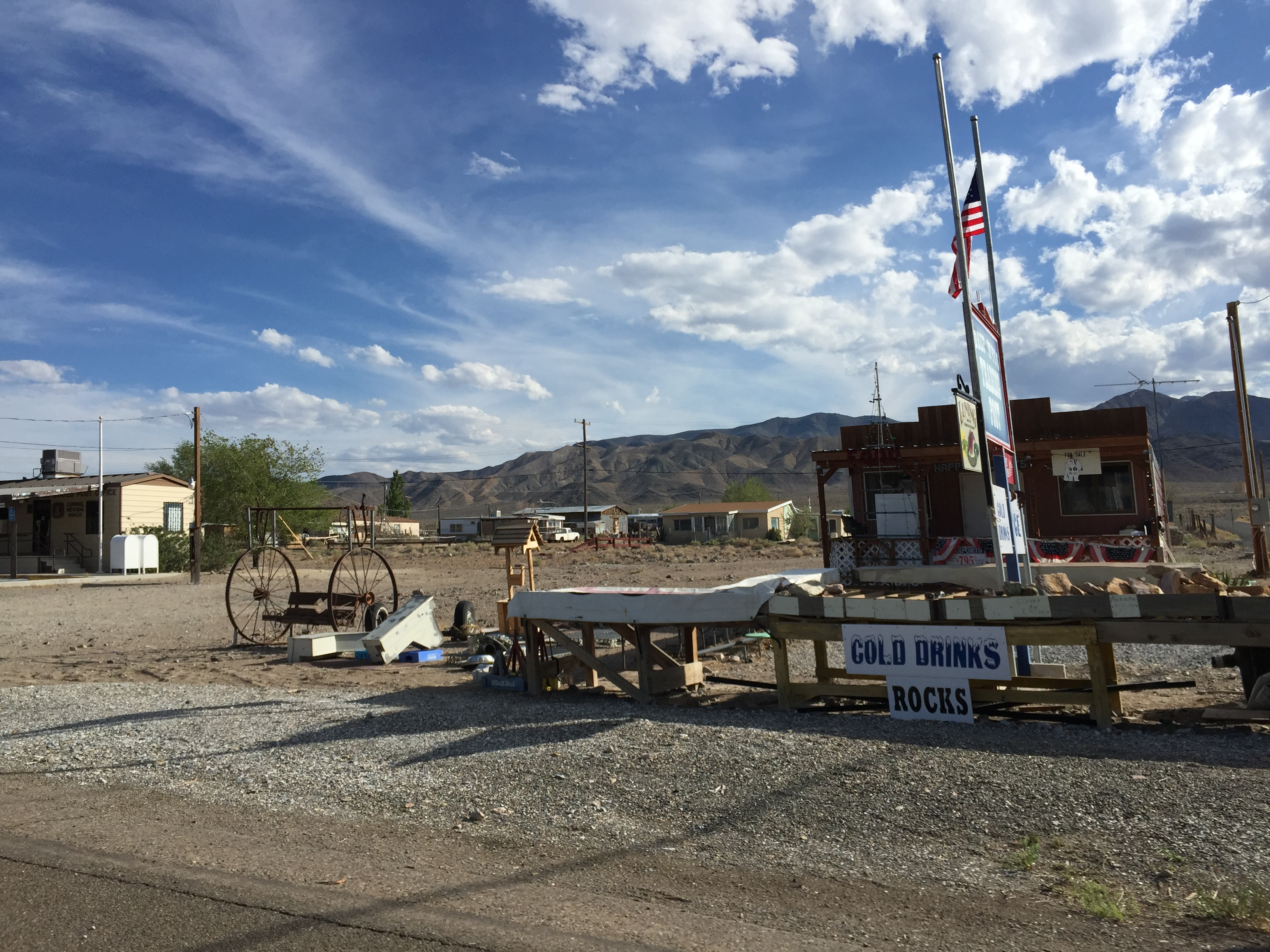 Buildings along U.S. Route 95 in Luning, Nevada